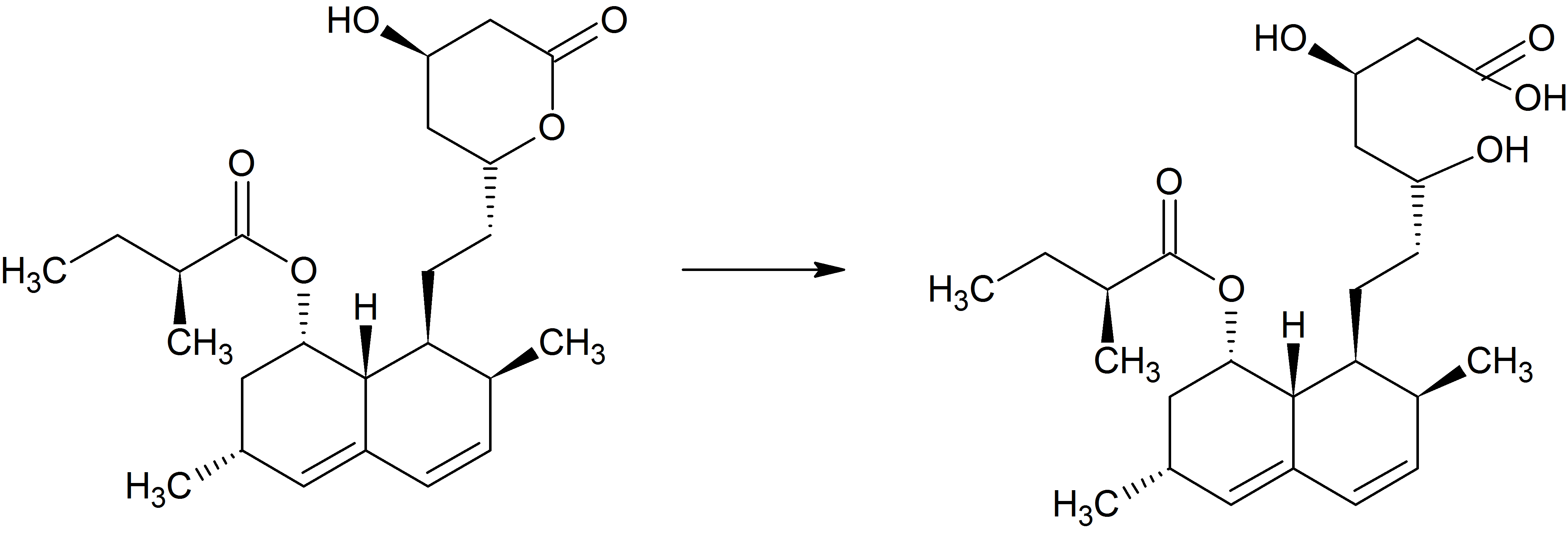 Simvastatin and simvastatin beta-hydroxy acid form (main active simvastatim metabolite)